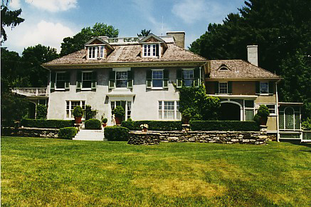 Chesterwood in Stockbridge, summer home & studio (now a museum) of Daniel Chester French (April 20, 1850 – October 7, 1931), designed by his friend Henry Bacon.